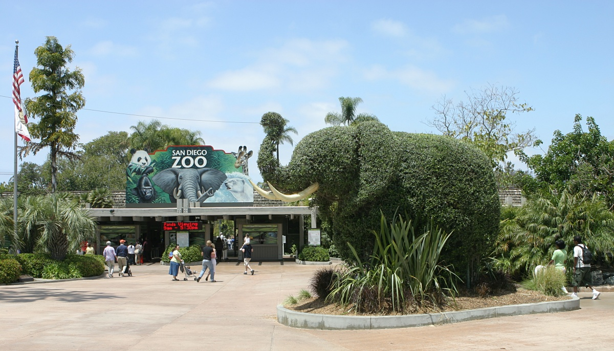 A sculpture of an elephant at the entrance of the San Diego Zoo in San Diego, California, USA.